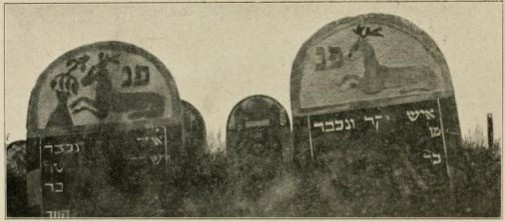 Jewish cemetery in Bielsk Podlaski